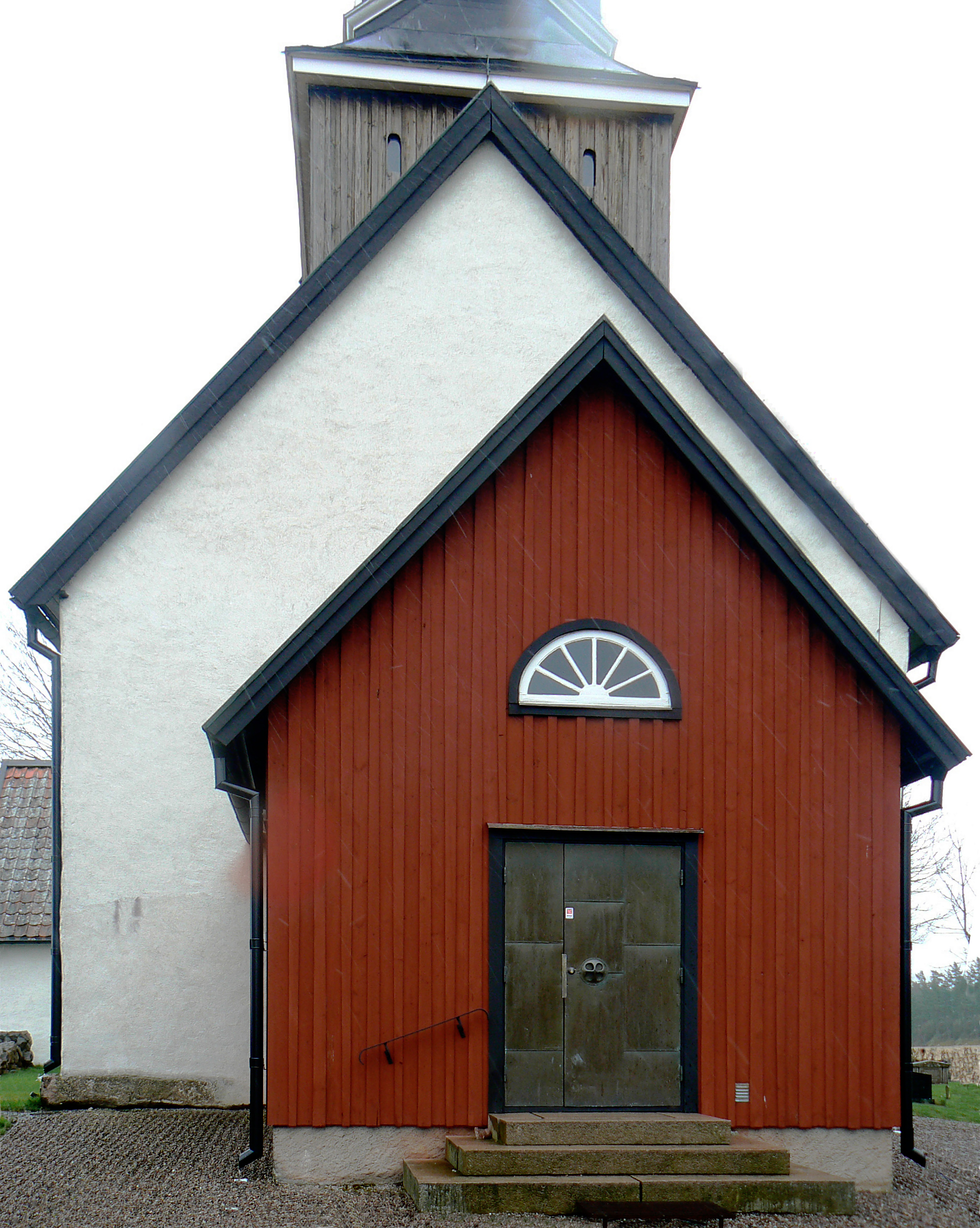 The porch (vapenhus) of Lillkyrka church in Östergötland, Sweden.